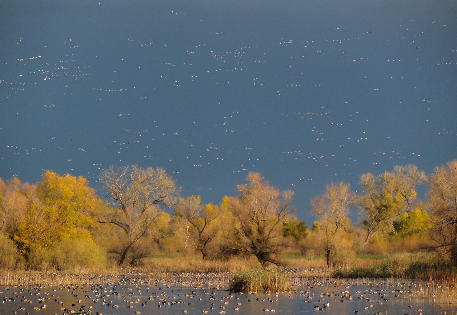 Waterfowl (geese and ducks) at Gray Lodge Wildlife Area — in the Sacramento Valley, Butte County, California.